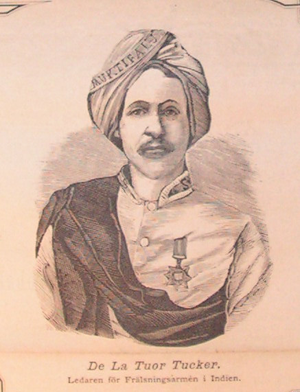 De La Tuor Tucker, later named Frederick Booth-Tucker, (Frederick Booth-Tucker), married with Emma Booth. He was leader for the Salvation Army in India. Picture from the Salvation army paper War Cry (Stridsropet) in Sweden, number 14, issued july 1885.